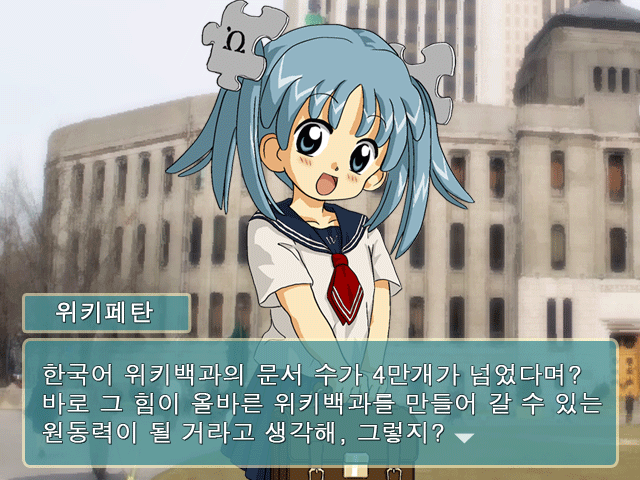 Wikipetan Visual Novel Korean ver.